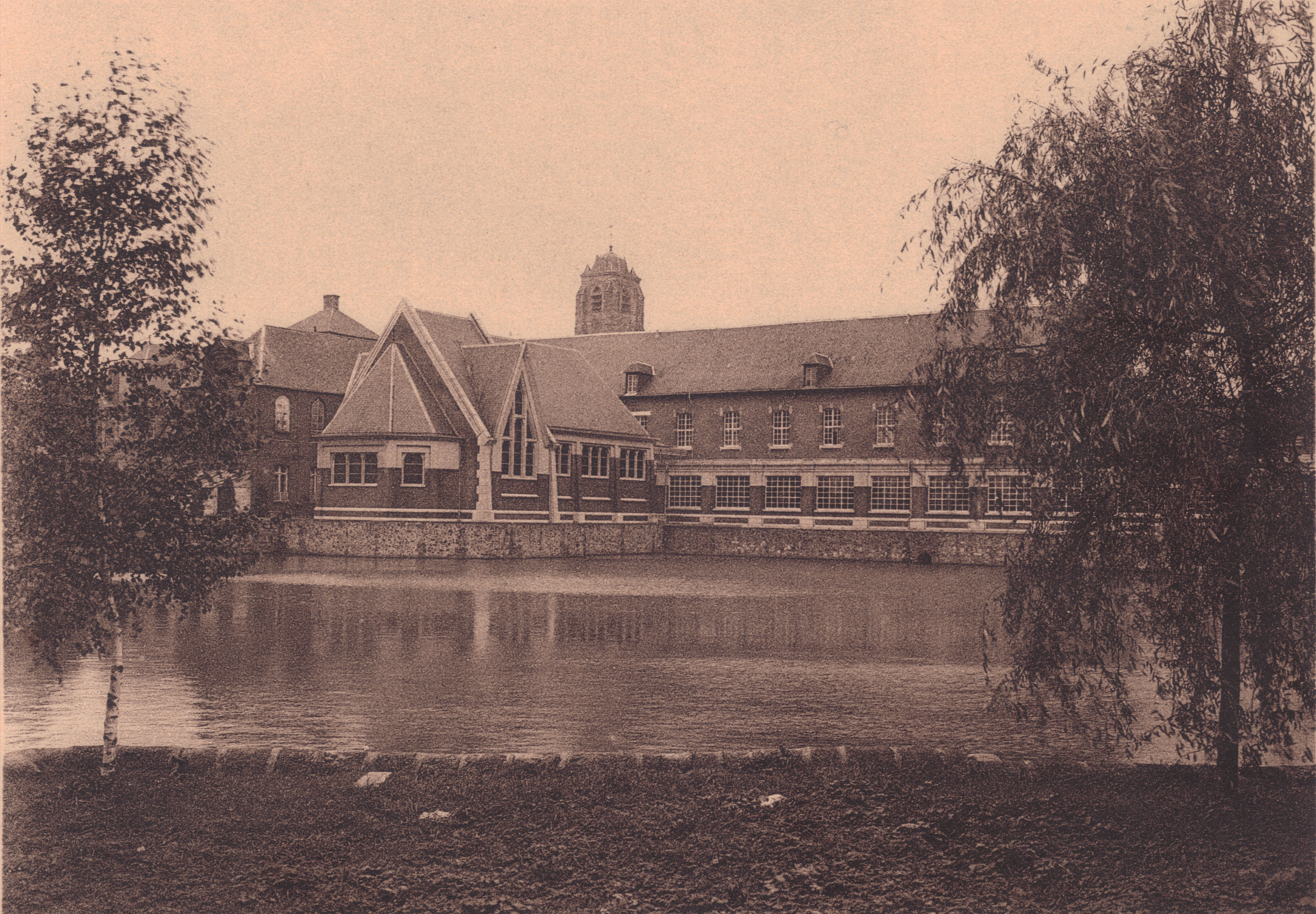 Bonne-Espérance Abbey, Vellereille-les-Brayeux (Belgium), the chapel of the "philosophy" and the pond.